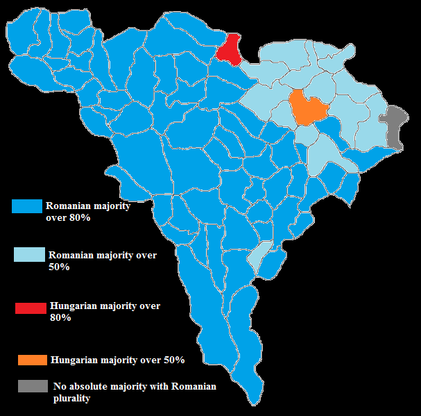 Ethnic map of Alba County, based on the 2011 census.